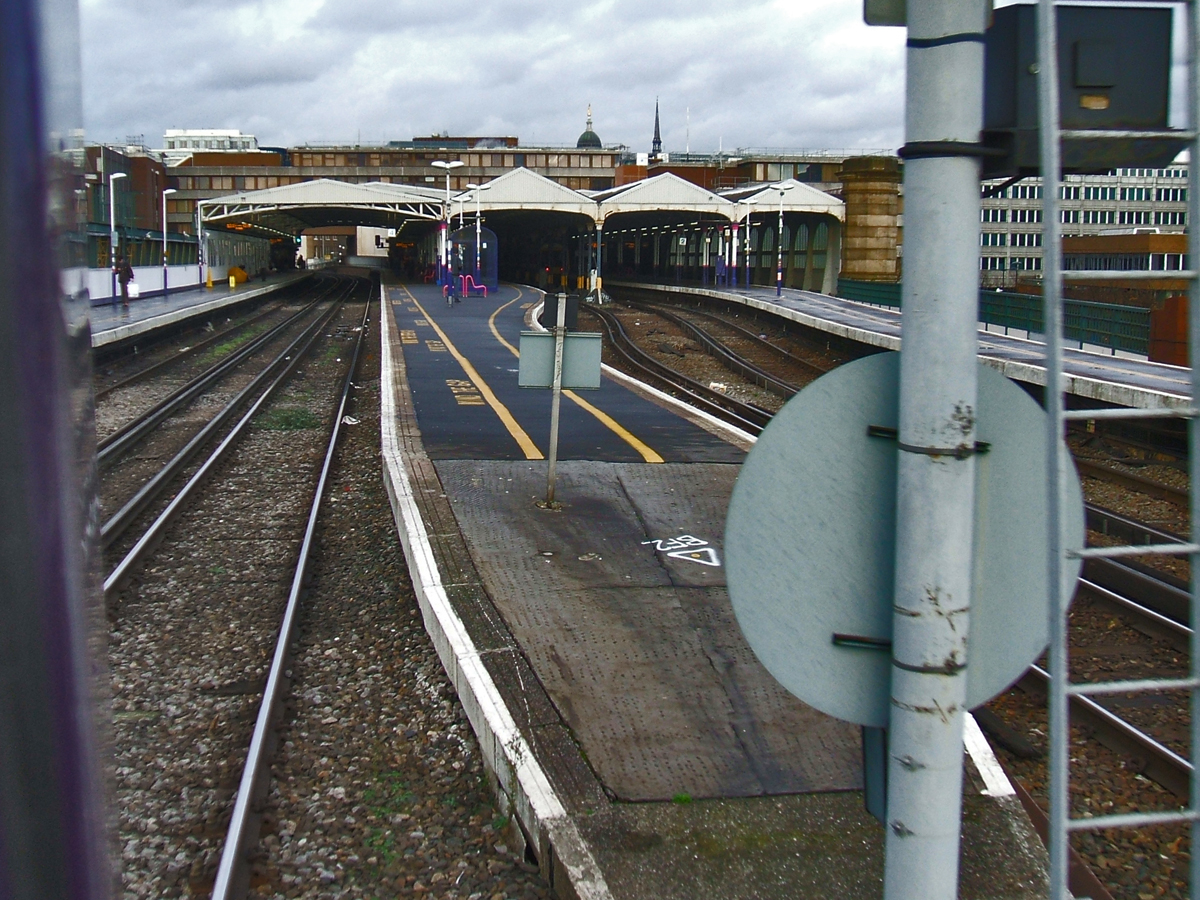 Blackfriars station before refurbishment, seen from a departing train and showing the bay platforms to the right and through platforms on the left